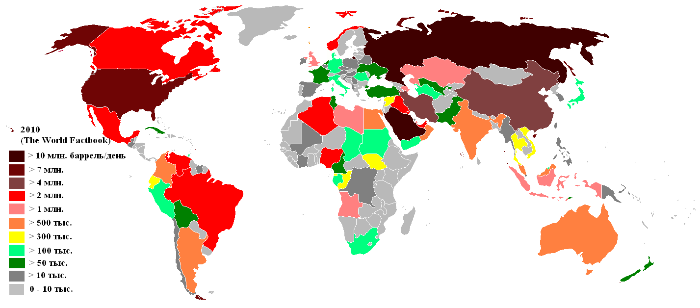 Oil production in the countries of the world 2010; million (млн) & thousand (тыс.) bbl/day (CIA World Factbook) (h.)